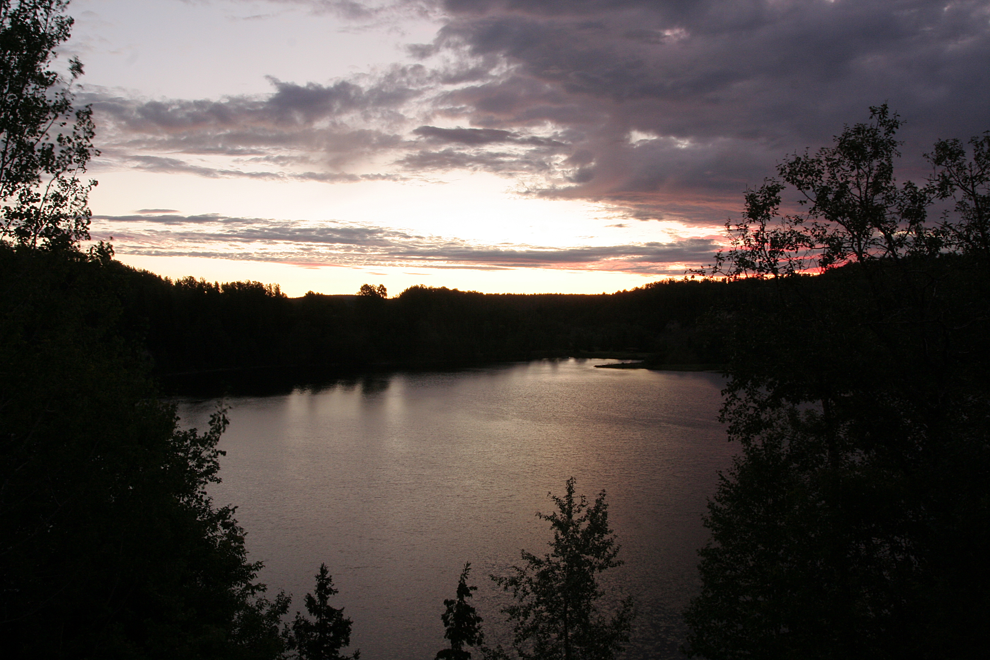 Daybreak on the Nipigon River